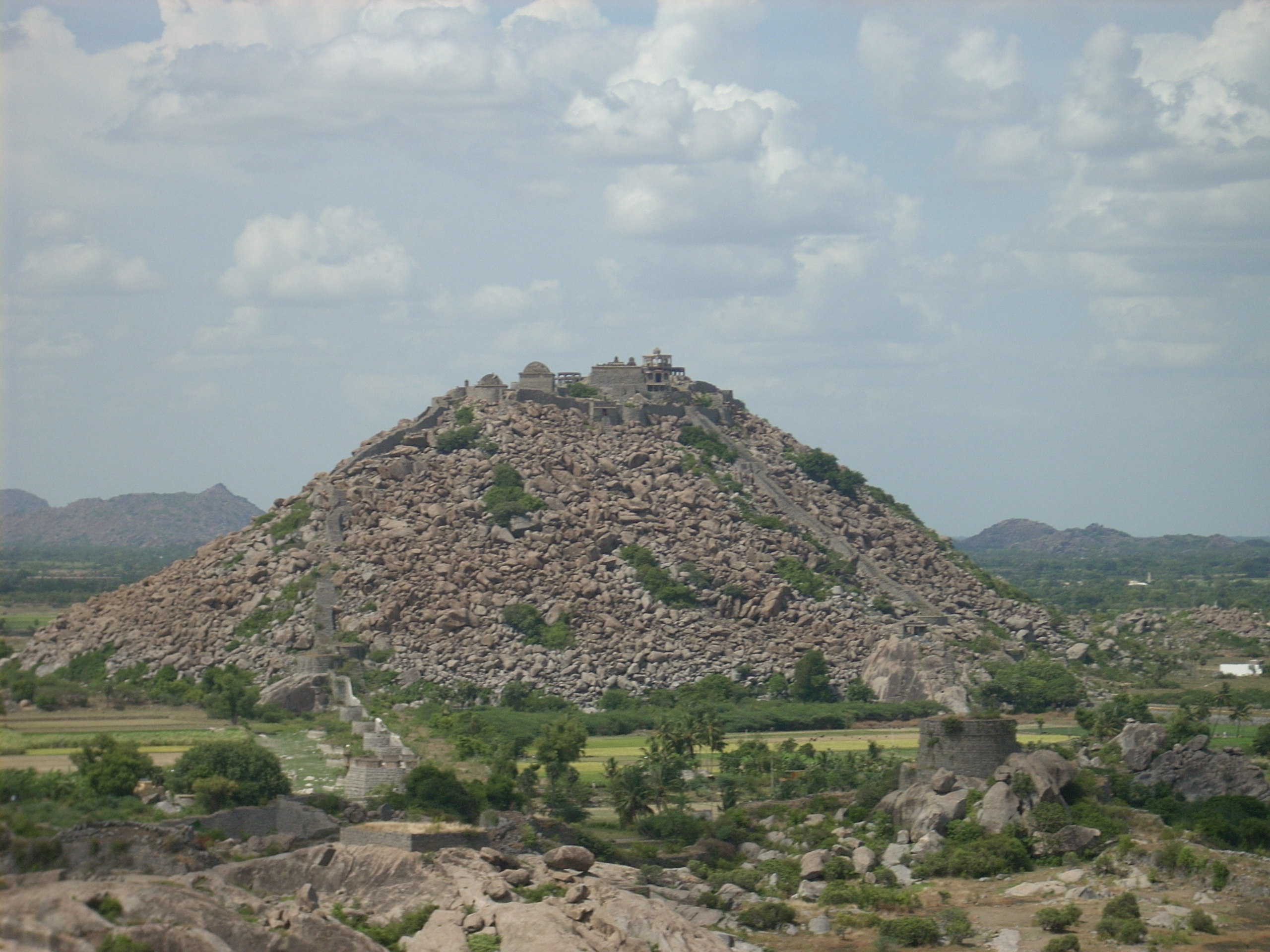 Gingee Fort also known as Chenji or Jinji in Tamil Nadu, India is one of the few surviving forts in Tamil Nadu, India